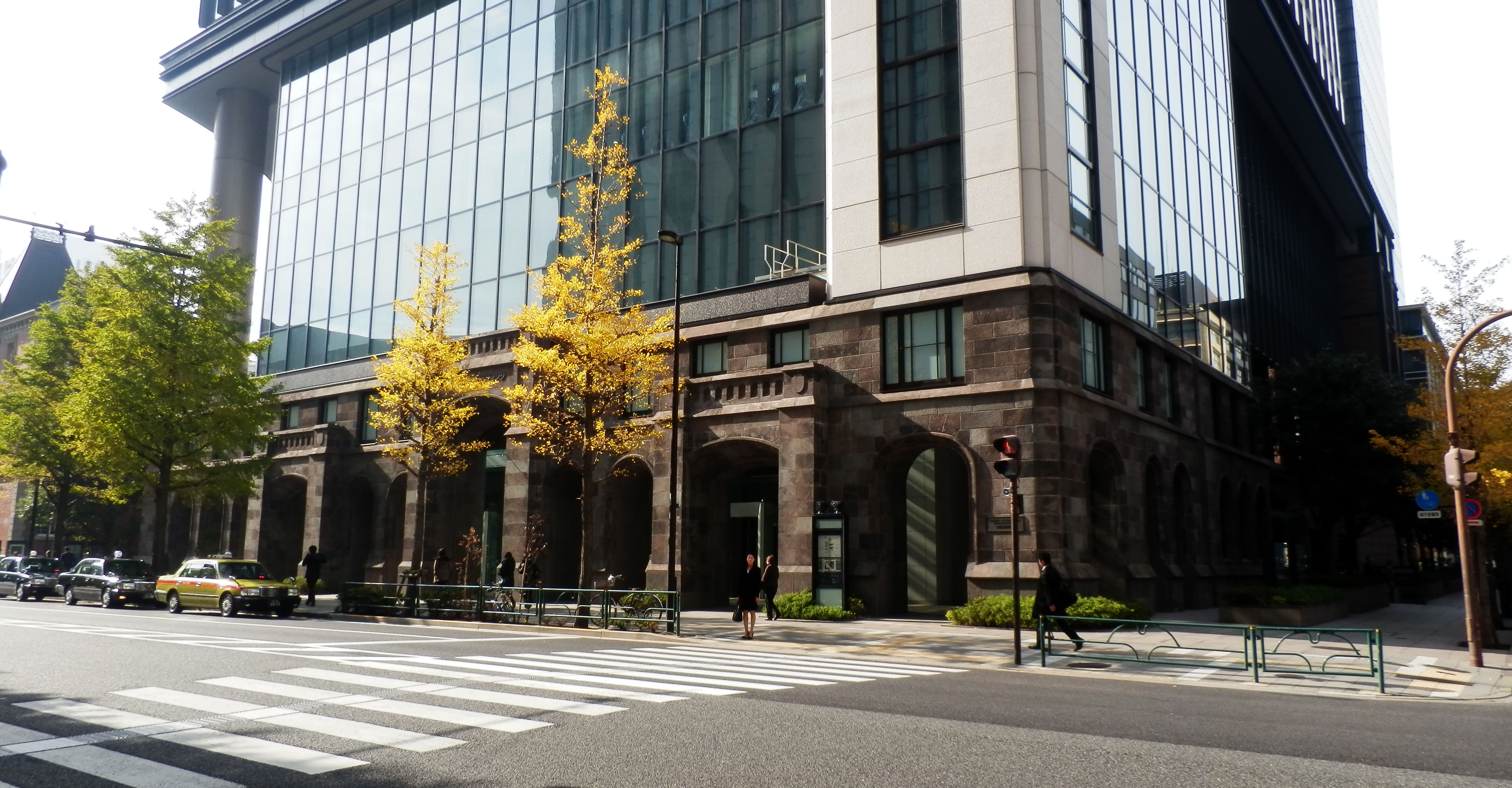 Facade retention of Marunouchi Yaesu Building as ground floor of Marunouchi Park Building (Office building in Tokyo, Japan)